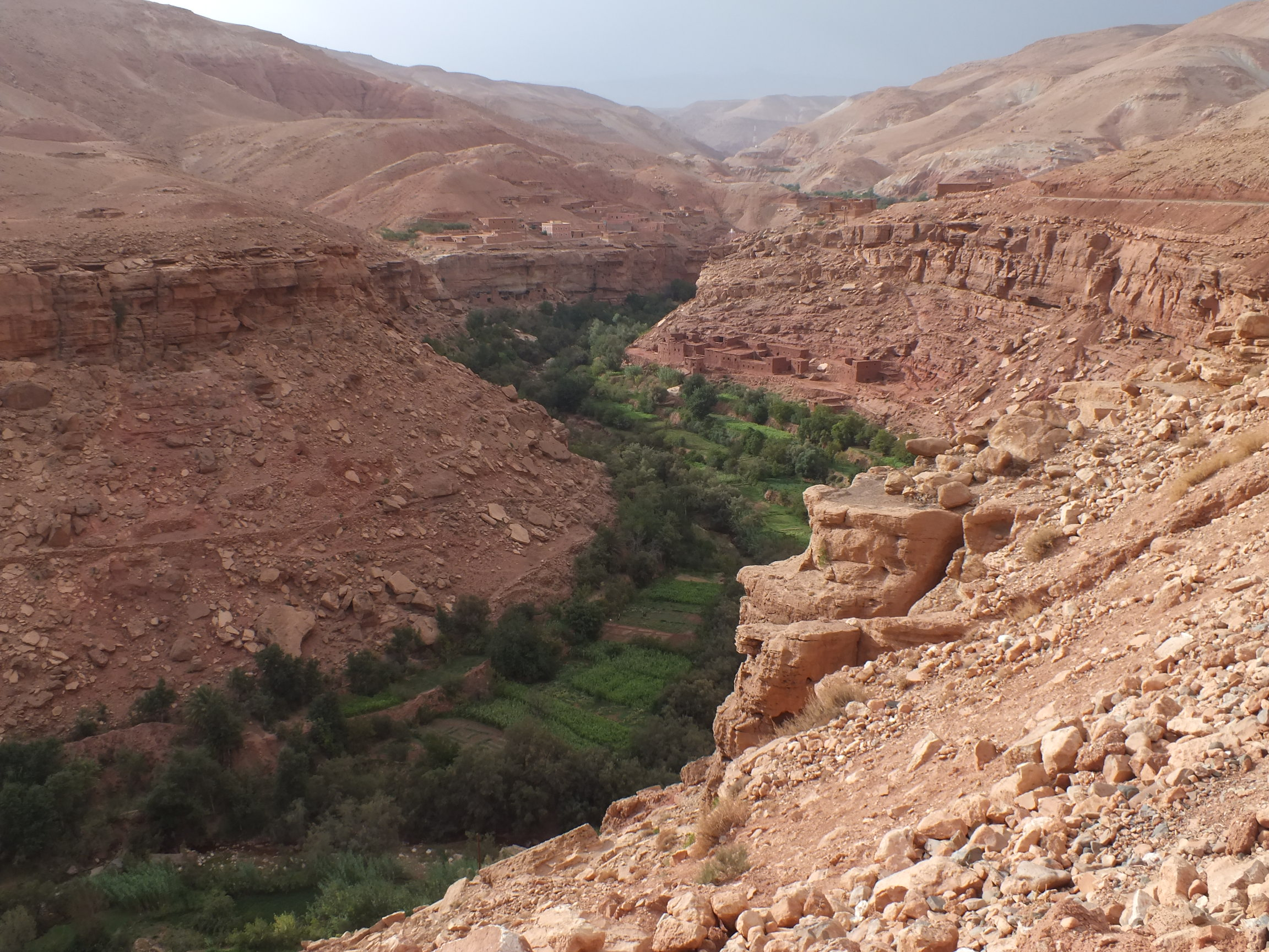 View onto the Valley Ounila with agriculture